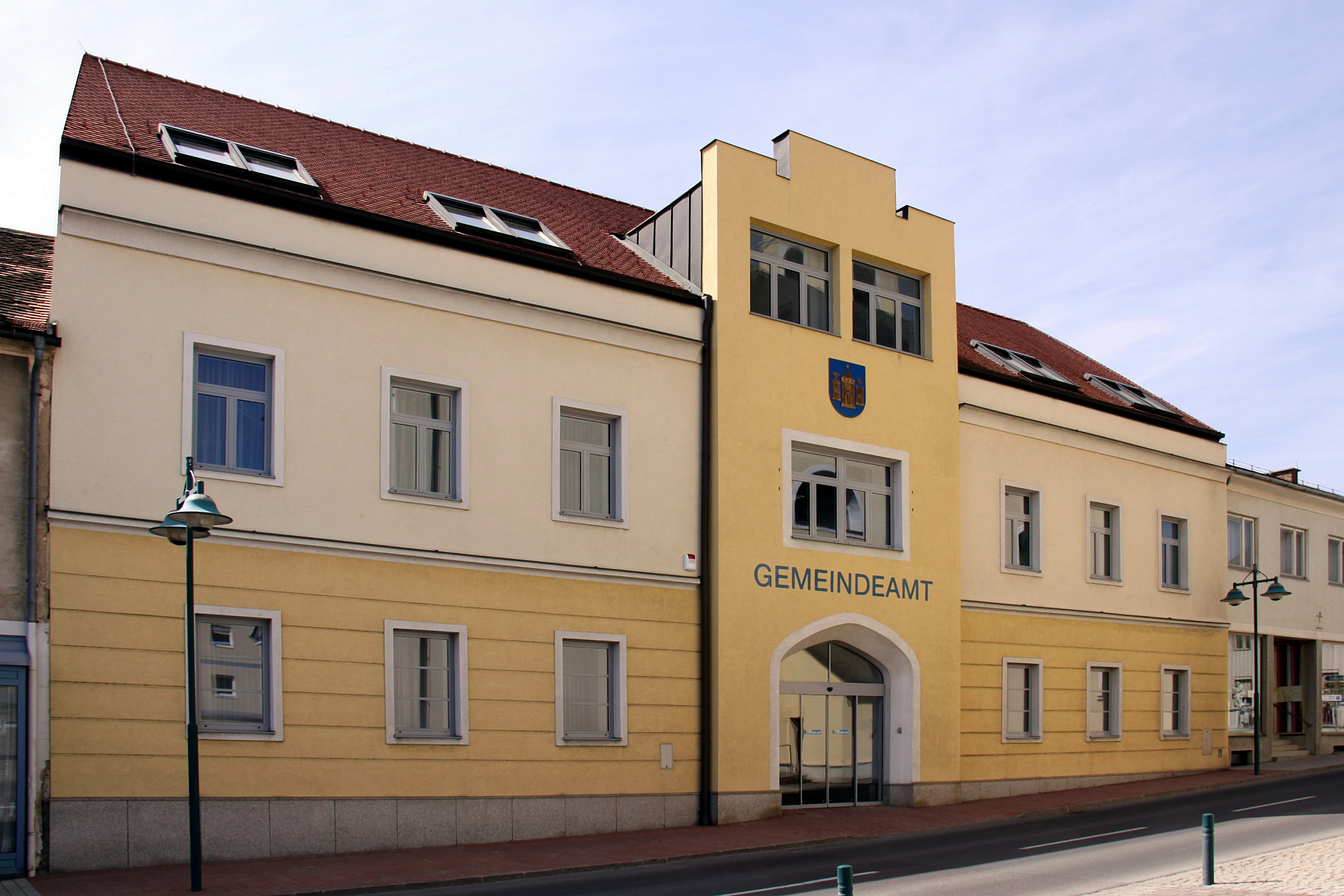 Rechnitz - municipal office